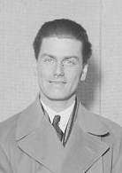 The Norwegian aviator and film director Tancred Ibsen and his wife, actress Lillebil Ibsen.